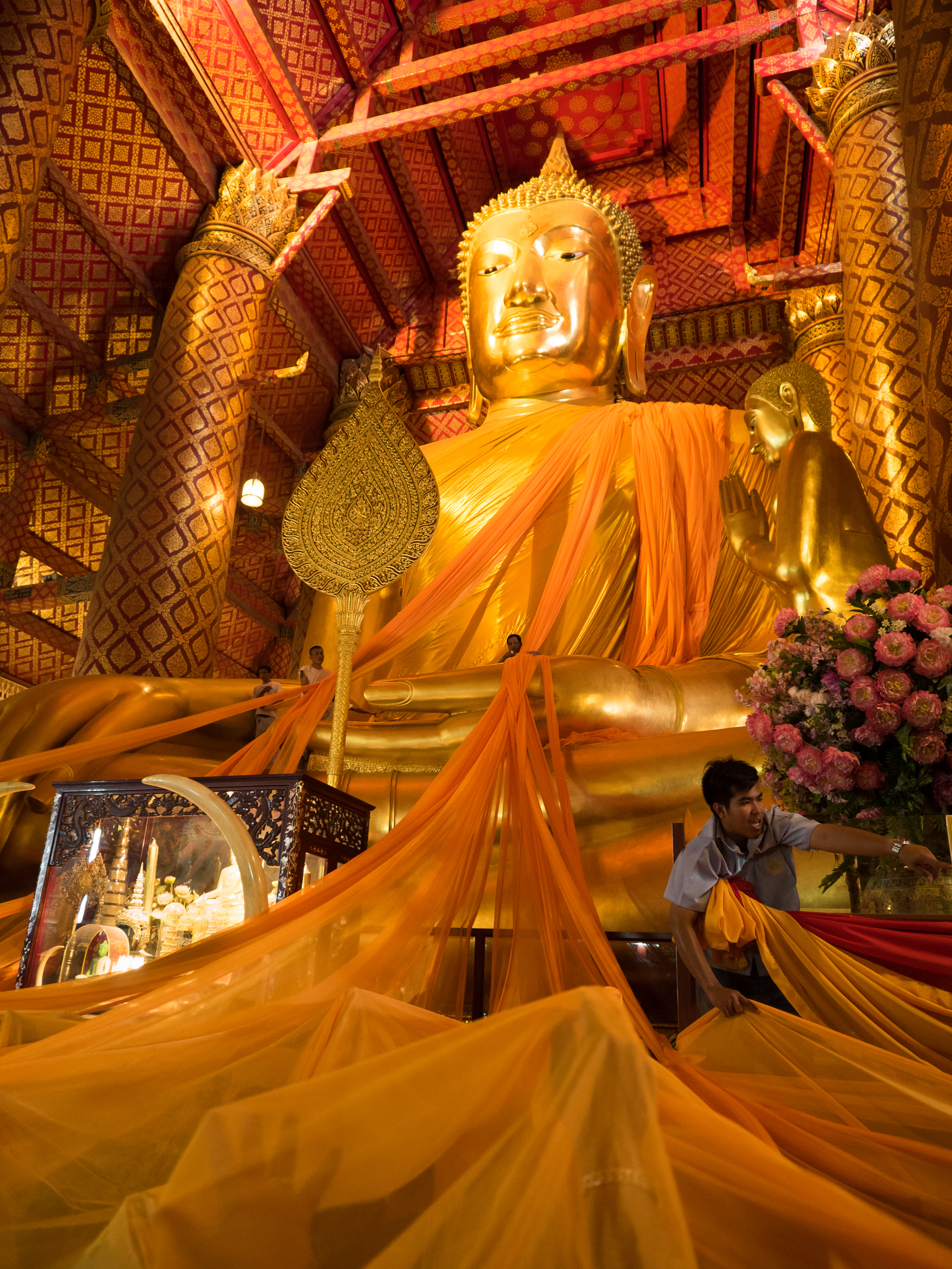 Blessing ceremony at Wat Phanan Choeng